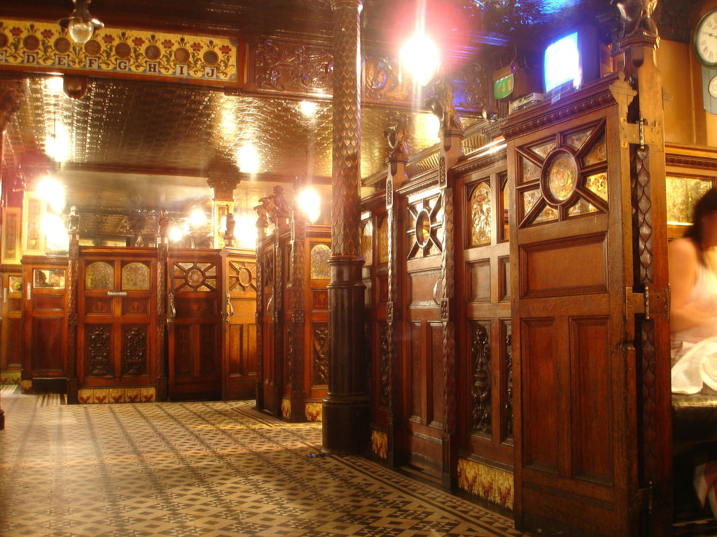 Credit - Neil Rickards on Flickr